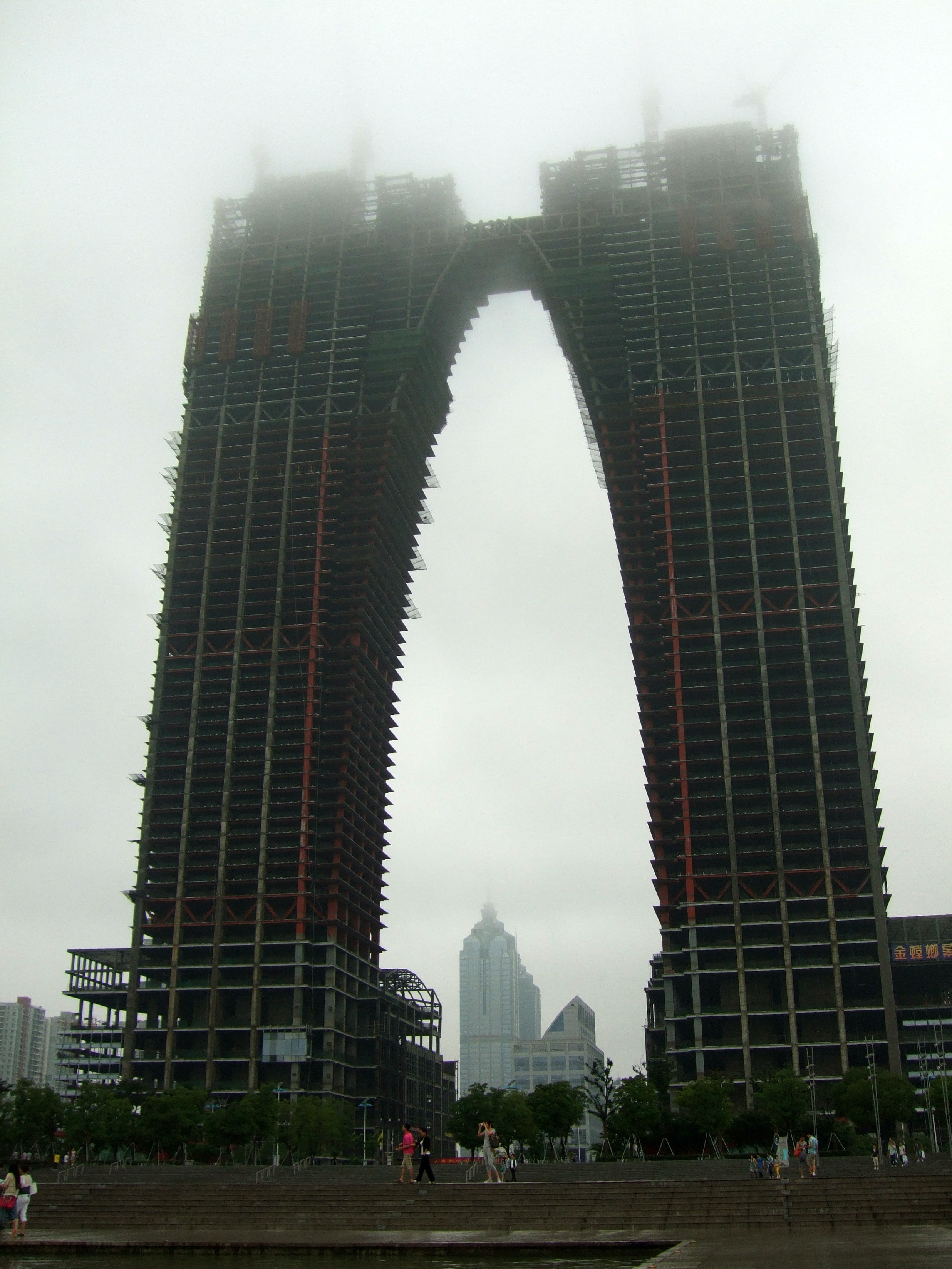 Gate of the Orient construction